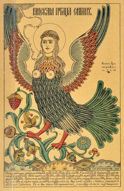 Sirin (old postcard).